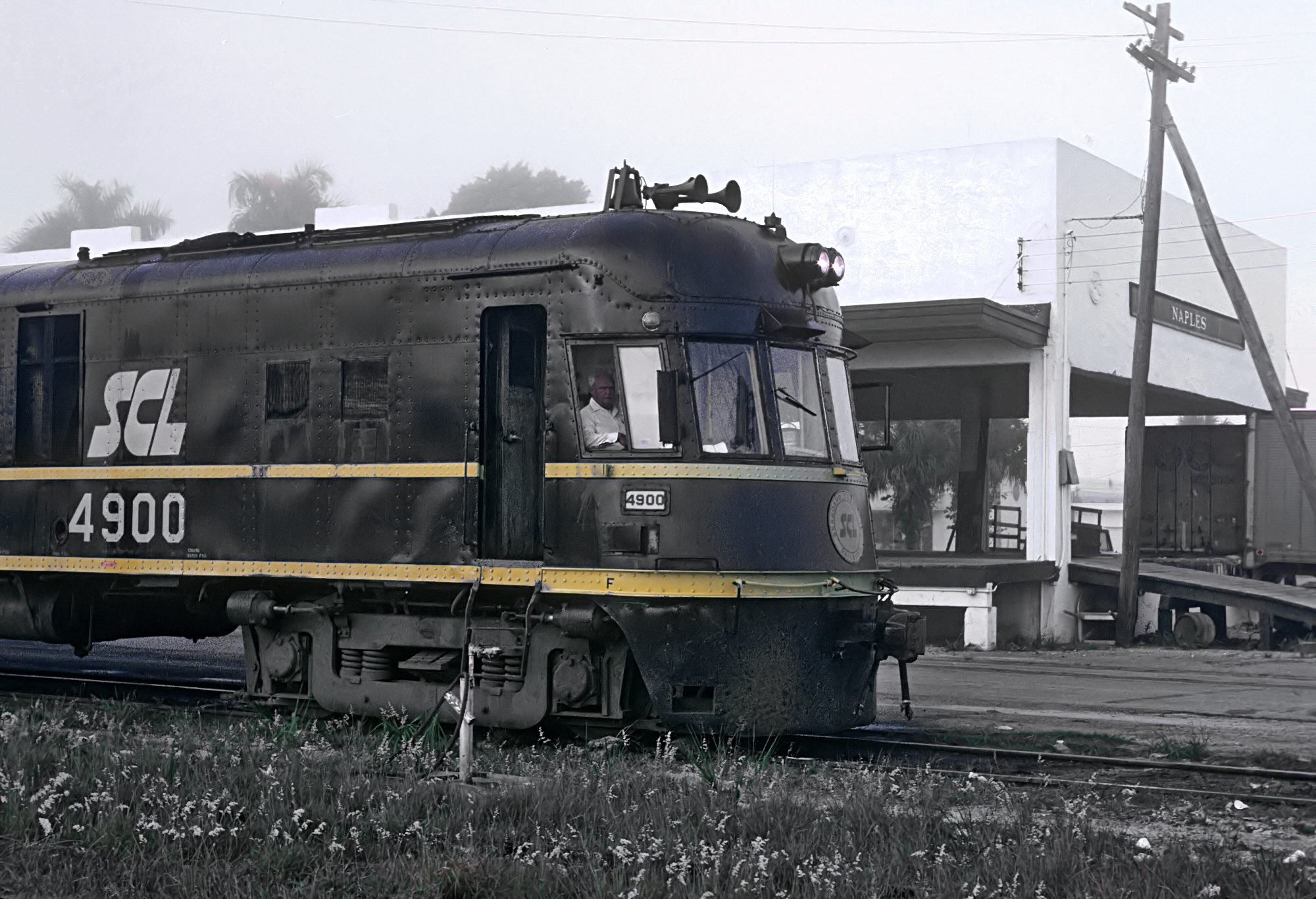 Seaboard Coast Line diesel-electric railcar #4900 (ex-SAL #2028) leads the Champion through Naples, Florida in March 1971, less than two months before it was retired